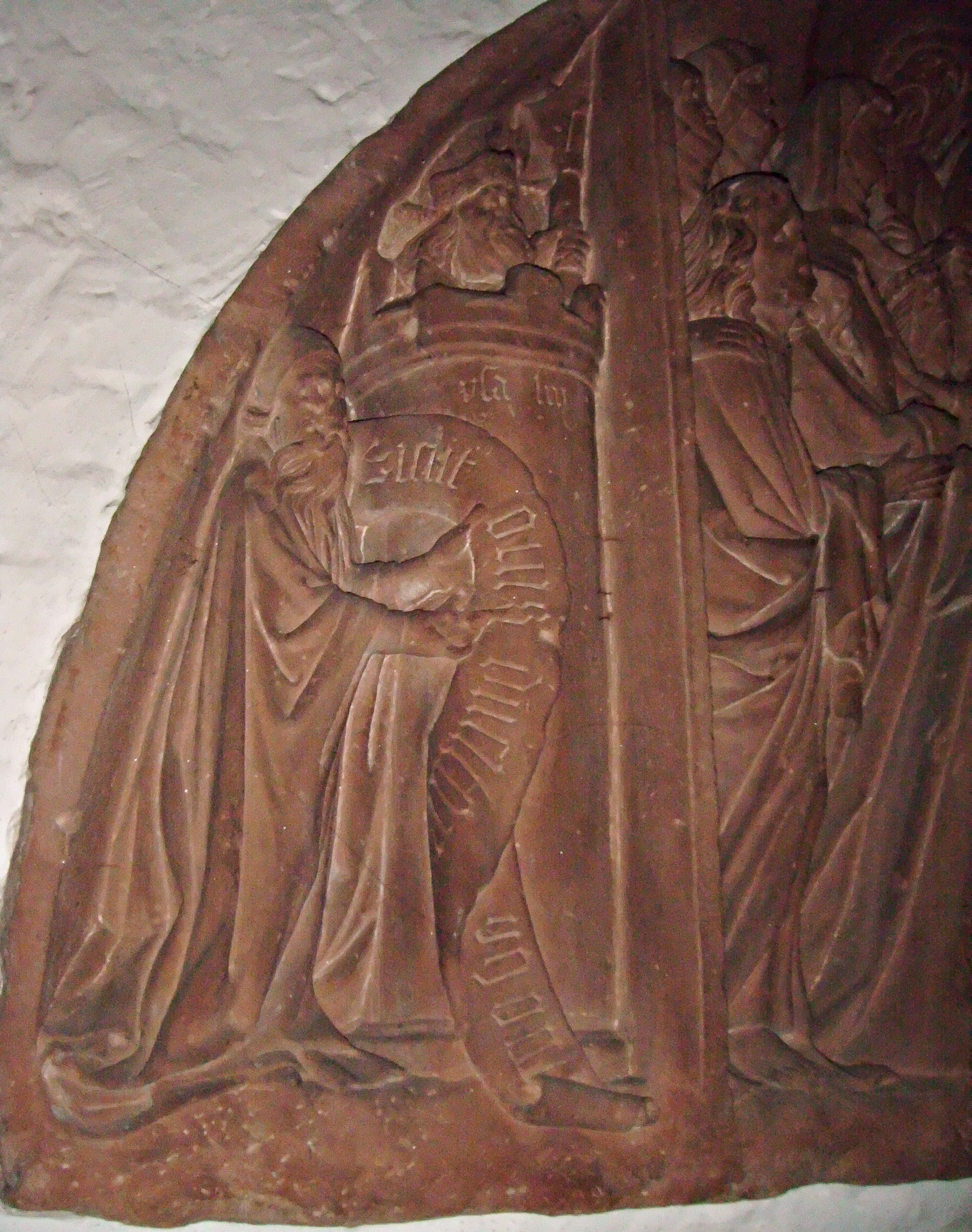 Speyerer Dom, sprechendes Wappen "Burgmann", vom Epitaphrest des Domdekans Nikolaus Burgmann (+ 1443), Afrakapelle